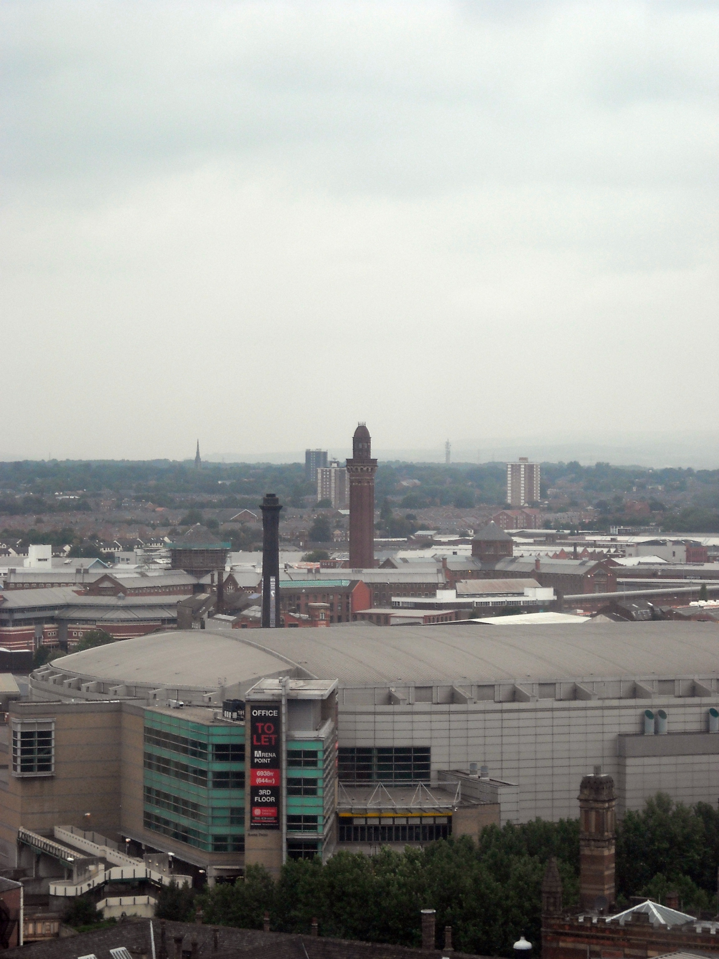 Taken from the Manchester Wheel